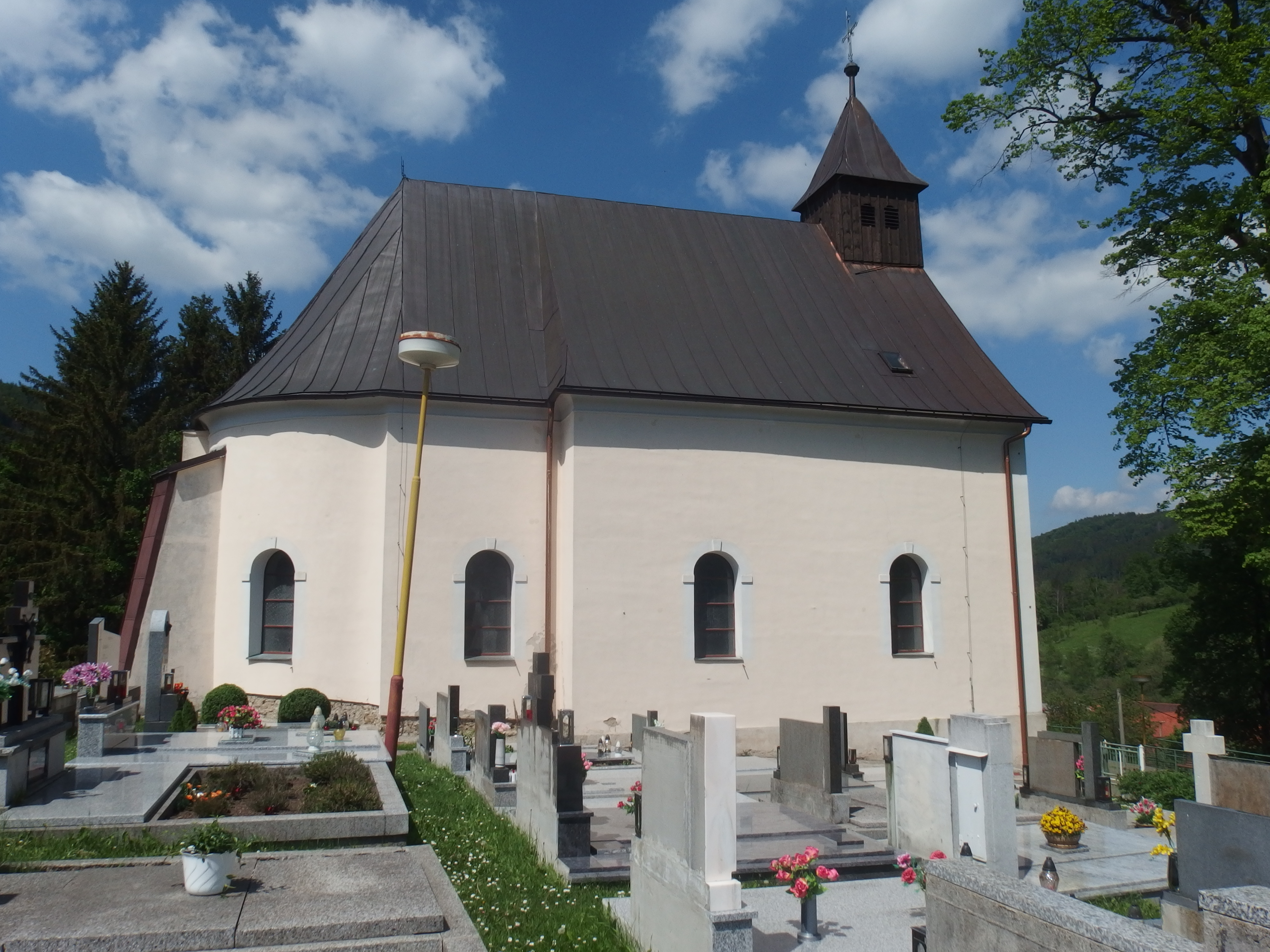 Zděchov, Vsetín District, Czech Republic.